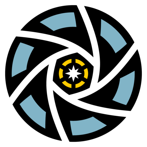 logo Fotomovimiento15m